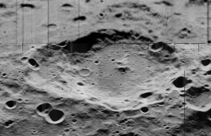 Oblique view of Joule on the far side of the moon, facing west. Mosaic of high-resolution (H) frame and low-resolution (M) frame.